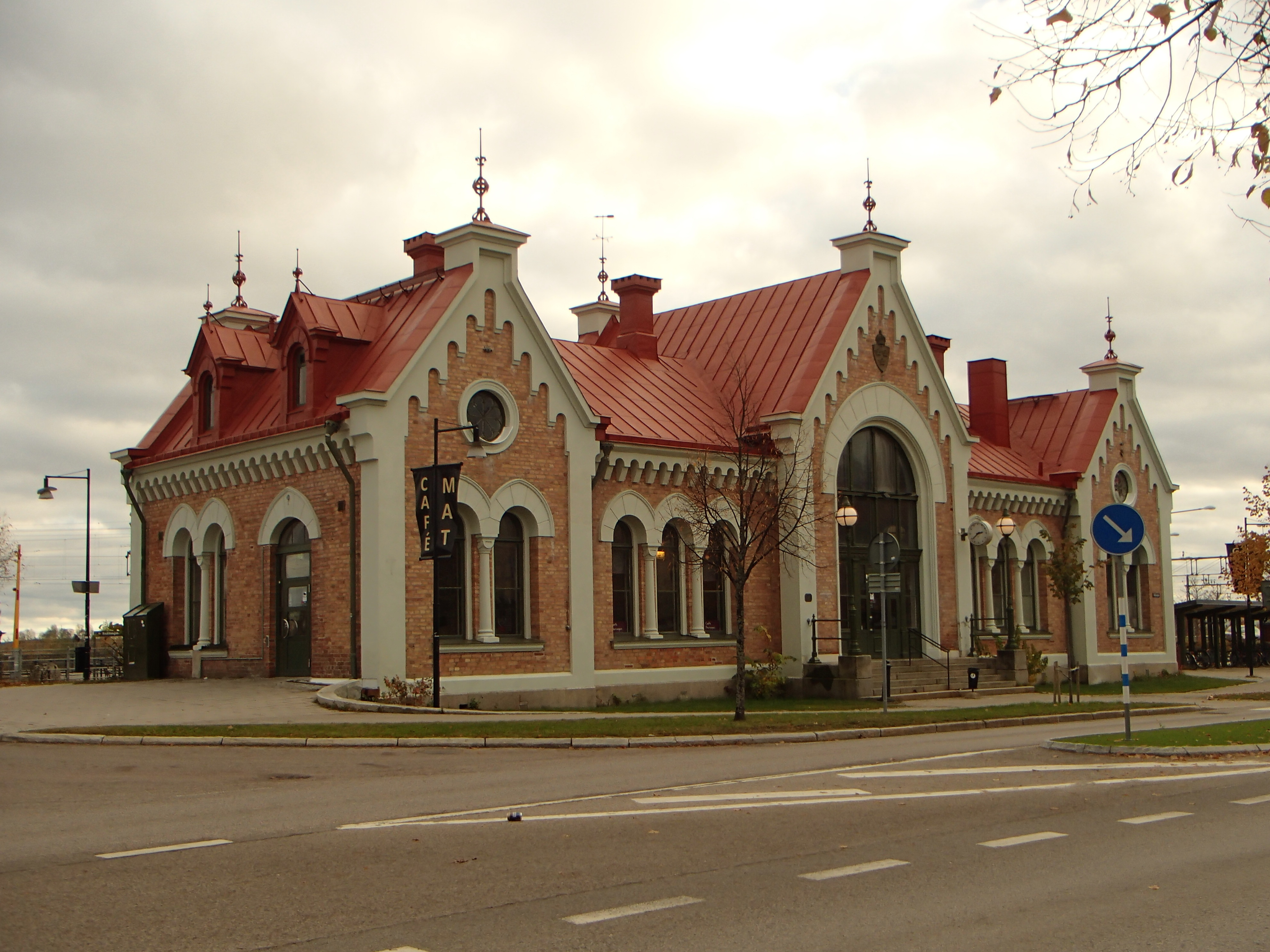 The building of "Hudiksvalls stationshus" at Stationsgatan 7 in Hudiksvall